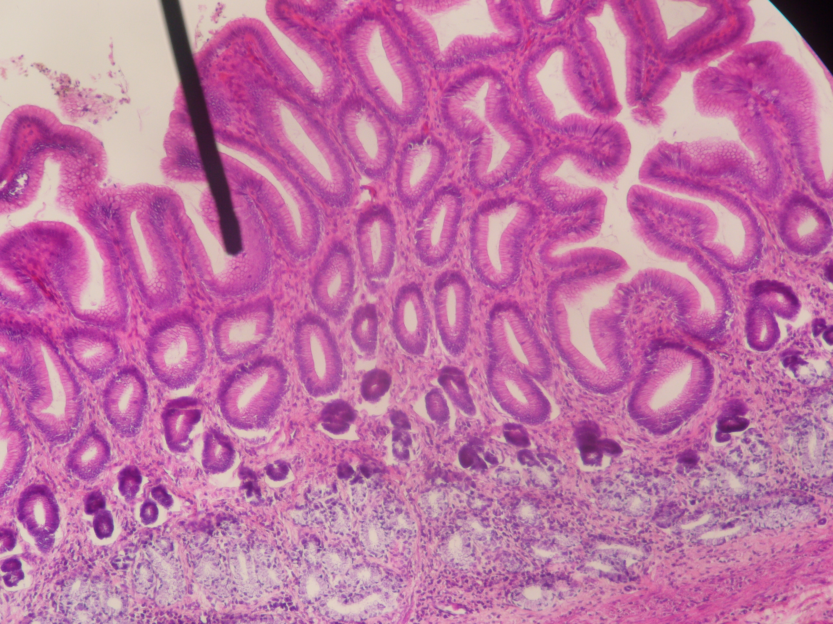 Author's own picture. Digital camera shot of human (pyloric)stomach through a microscope.